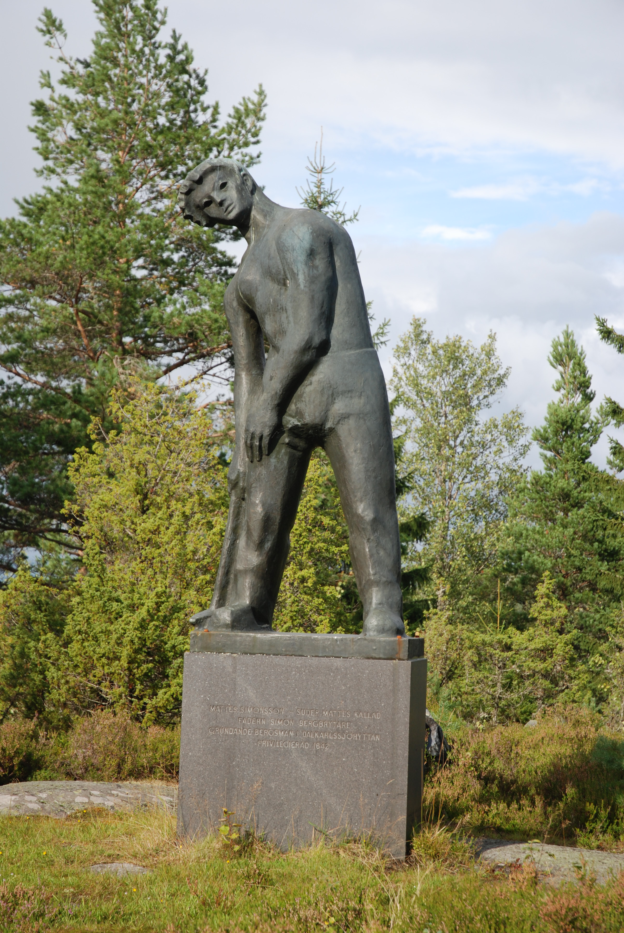 Sudermattes, av Martti Peitso, Minneskullen vid Sjösta, utanför Lesjöfors, Sweden